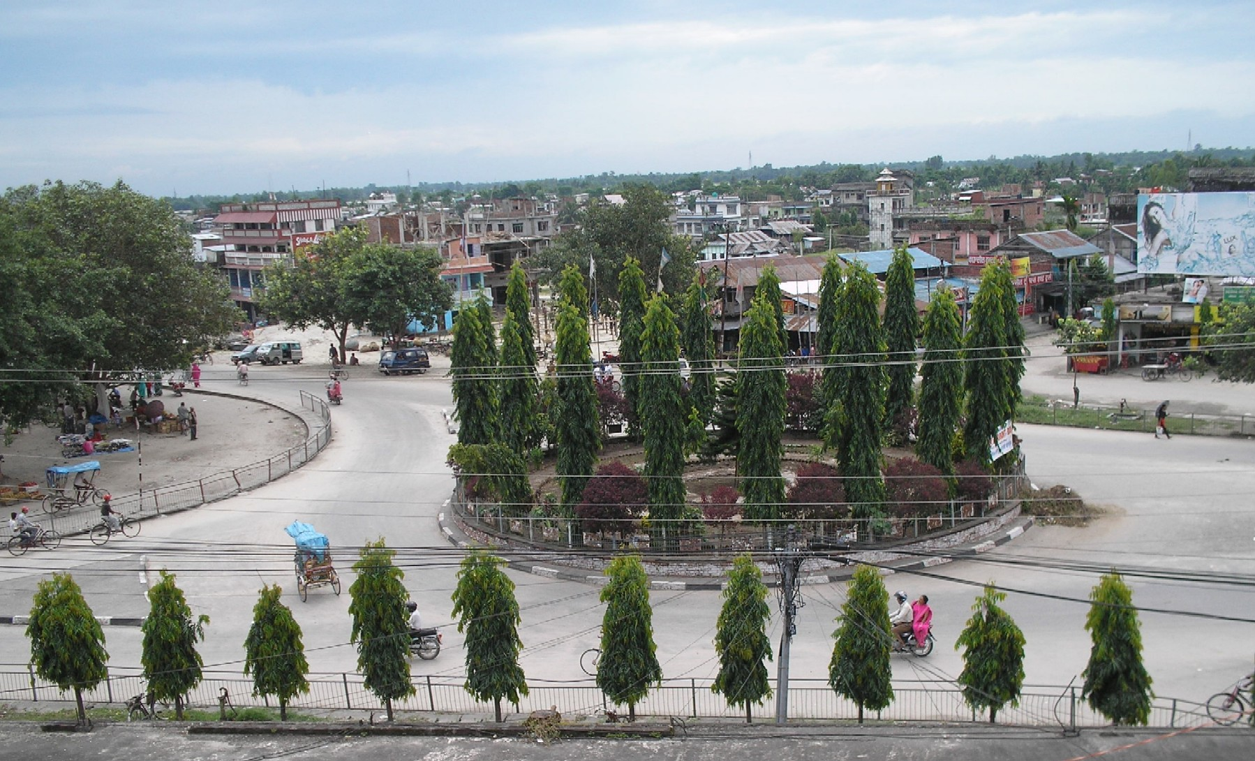 Photo showing the central street of Damak.